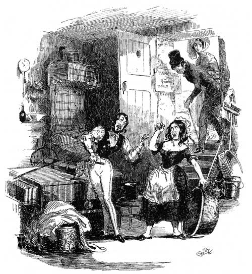 Illustration for Nicholas Nickleby by Hablot Browne